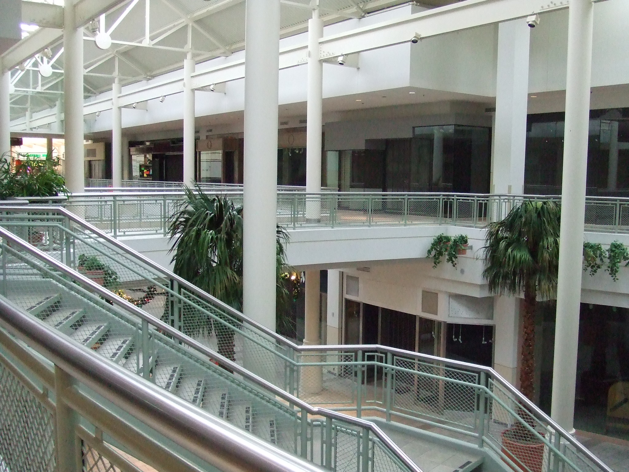 North Wing of Crossroads Mall in midtown Omaha, Nebraska